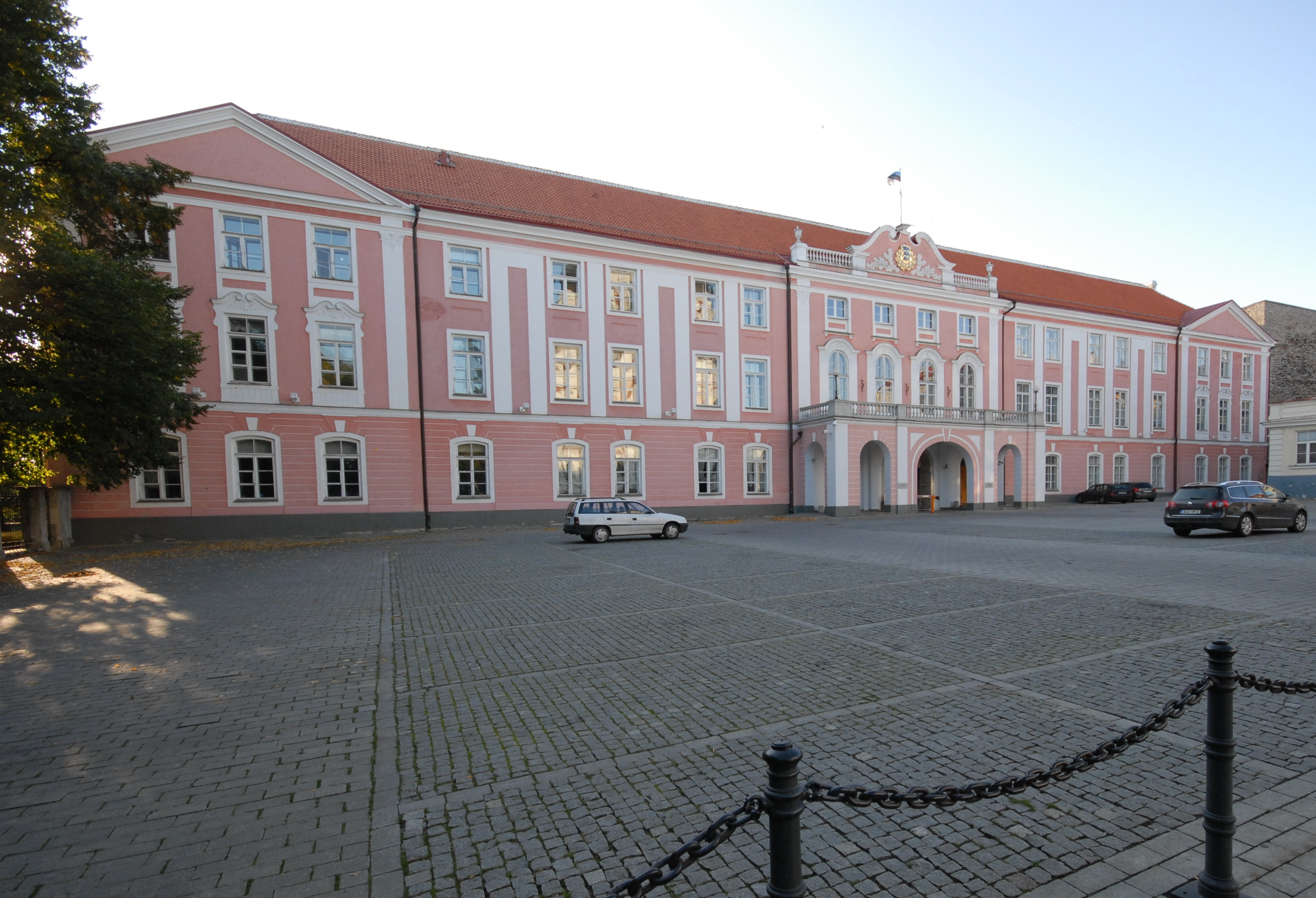 Eastland parliament building at Toompea, Tallinn